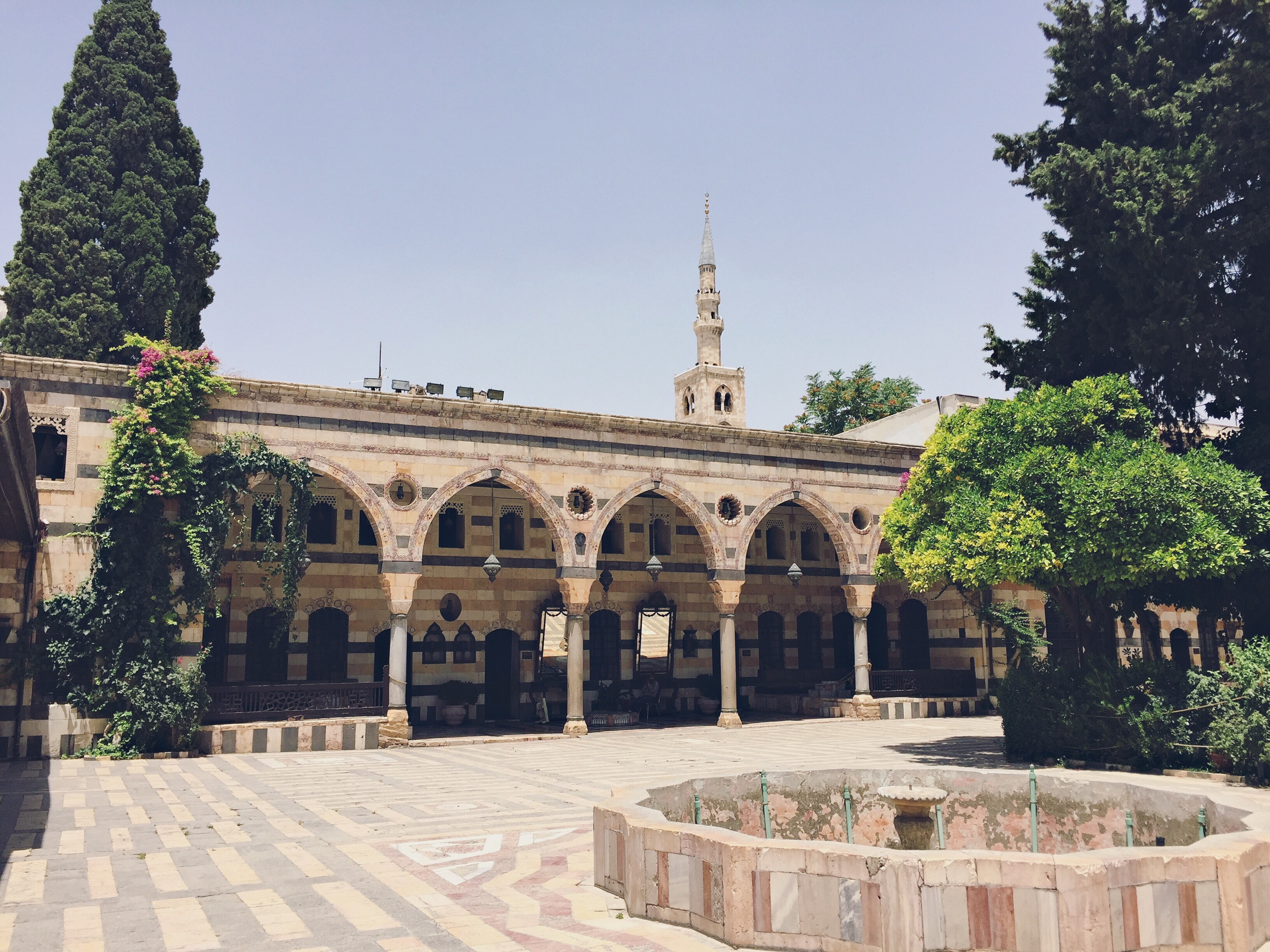 Azm Palace and Umayyad Mosque in the Old City of Damascus